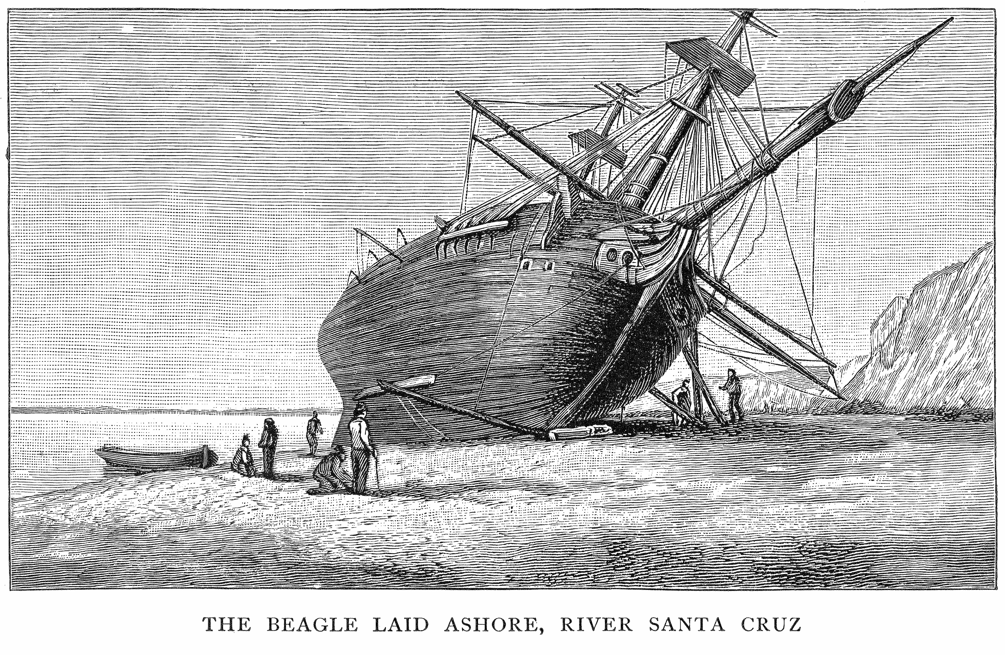 The Beagle Laid Ashore for repairs. Location: Tierra del Fuego, Santa Cruz river, 50.1125°S and 68.3917°W That is the position calculated by Captain Robert FitzRoy. The error was small. The drawing shows that the site must have been a river bank (50.13°S?, 68.39°W?) near the calculated position.